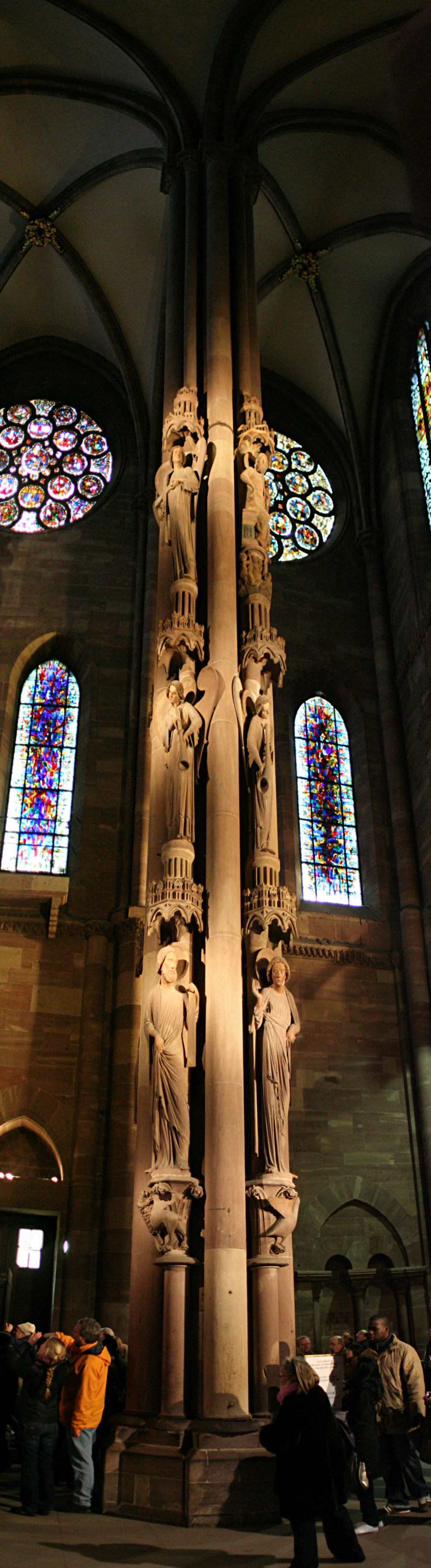 Pillar of the angels of the Strasbourg cathedral (South part of the transept).